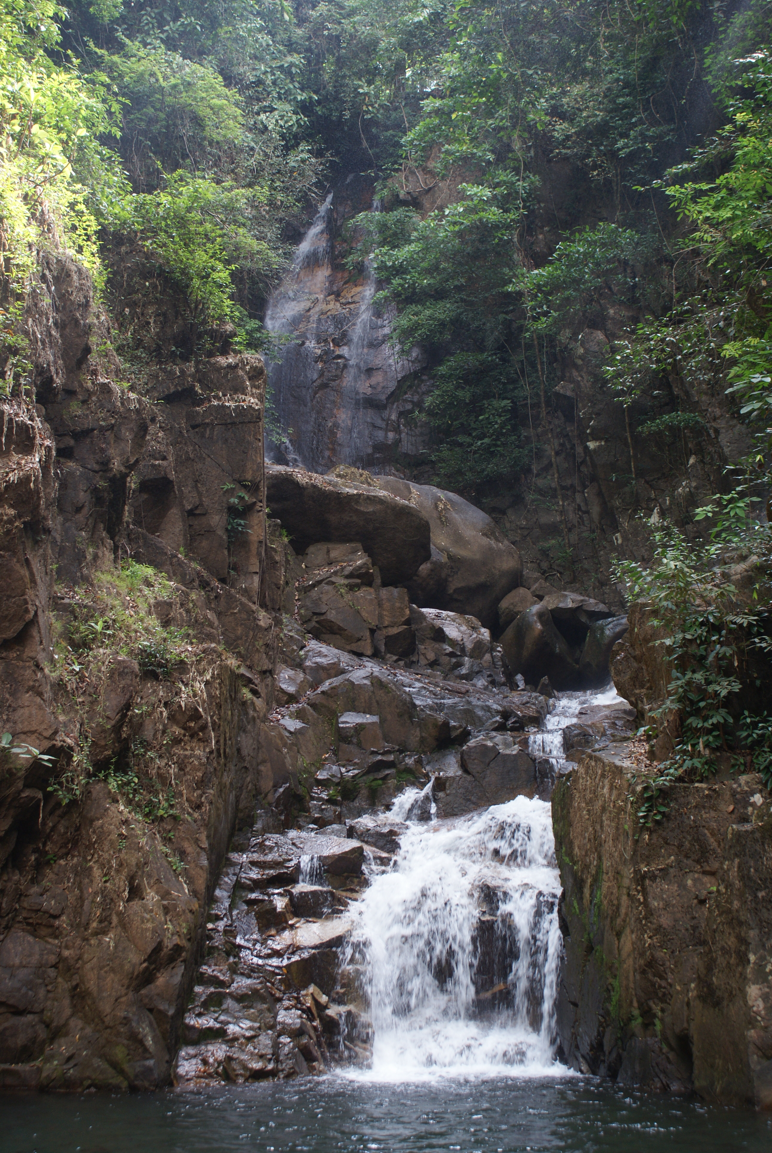 Waterfall at Namtok Phliu National Park (Chathaburi Province, Thailand)